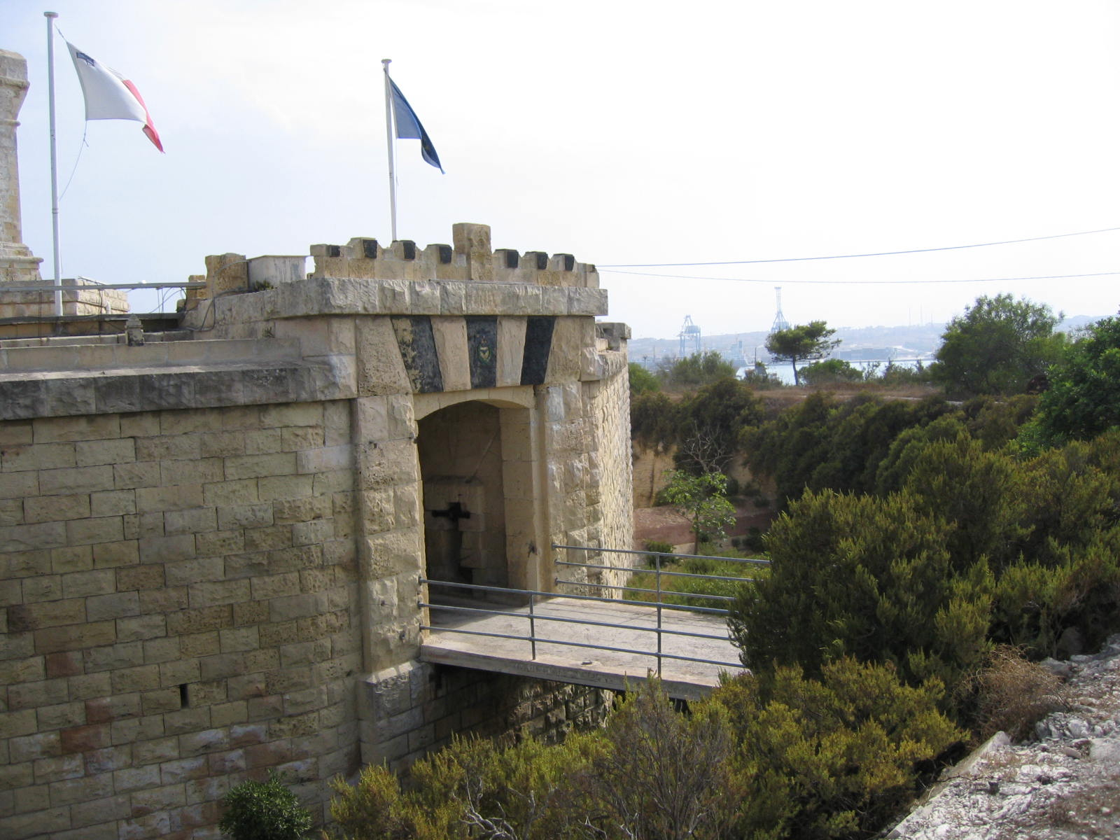 St Lucian's Tower, Marsaxlokk, Malta. Victorian Gatehouse, bridge and ditch. Copyright H.J.Moyes Sept 2005.